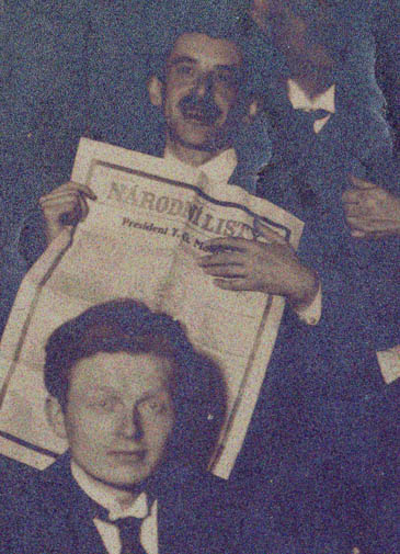 Rainer Maria Rilke with smile and newspaper´s (Narodni listy) headline: President T. G. Masaryk